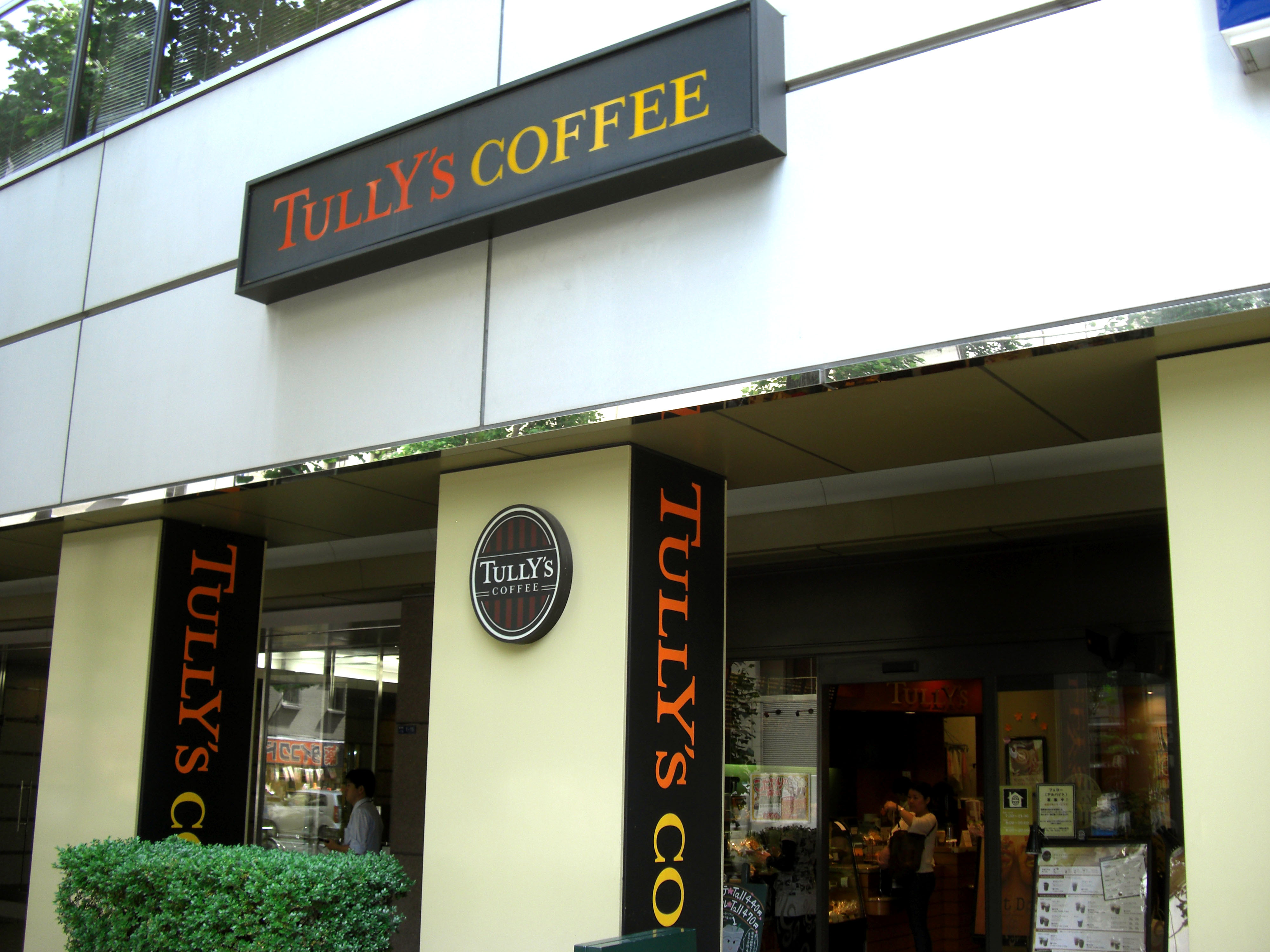 TULLY'S COFFEE Sakaisuji-honmachi, 1-7-15 Minami-honmachi Chuo-ku Osaka-City Osaka Japan.